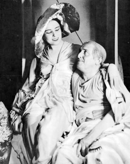 Jarmila Novotná as Hélène and Hans Moser as Ménélas in La Belle Hélène by Jacques Offenbach directed by Max Reinhardt in Berlin in 1931.